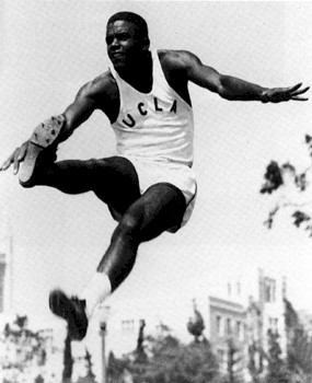 Jackie Robinson at UCLA (long jump)